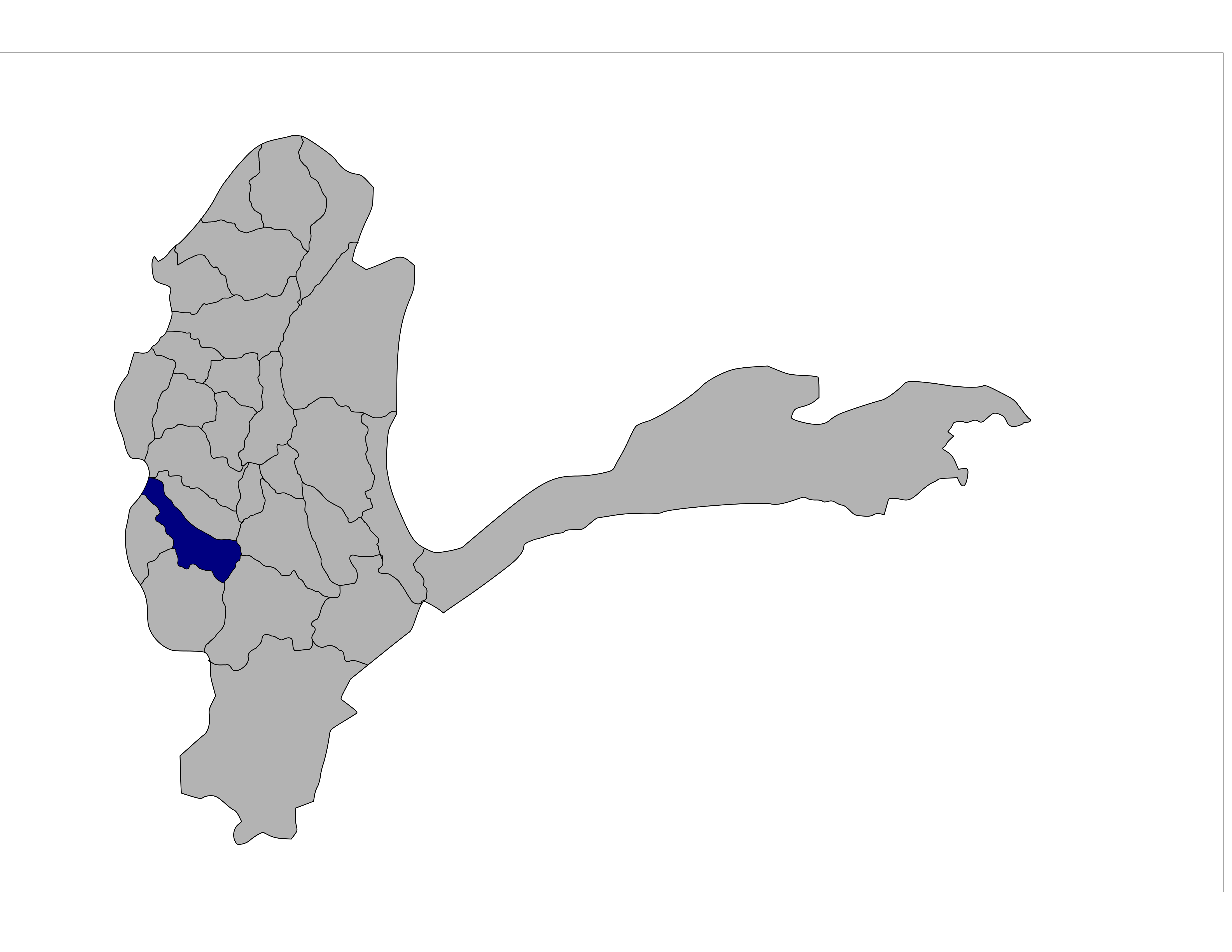 Shows the boundaries of Tishkan District, Badakhshan Province, Afghanistan.